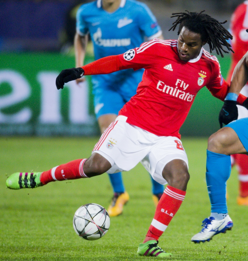 Renato Sanches